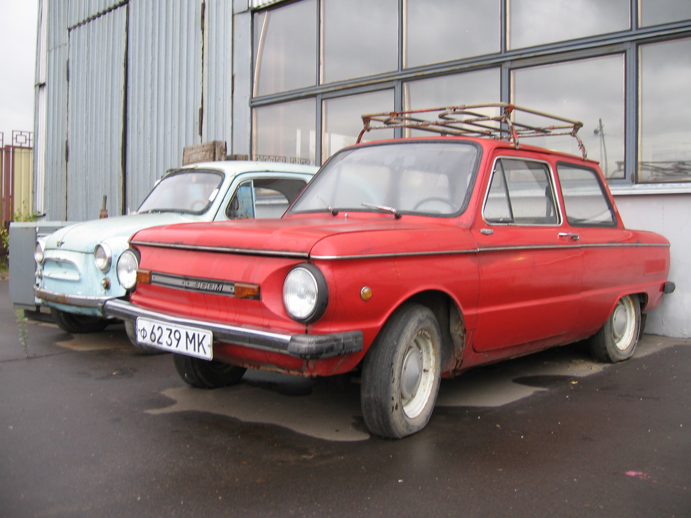 ZAZ-968M (red) and ZAZ-965 (light blue) in Moscow